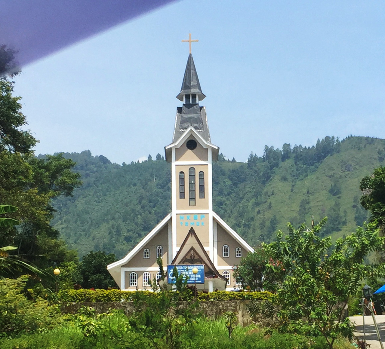 HKBP Tomok, Church in Tomok, Simanindo, Samosir